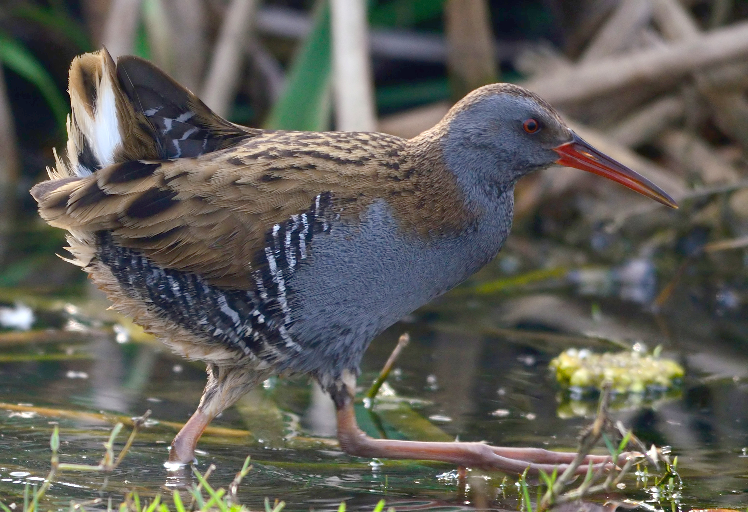 Water Rail Rallus aquaticus korejewi at Basai Wetlands, Haryana, India.